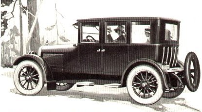 Magazine advertisement for Chandler Motor Car. Chandler Metropolitan Sedan, 1922, retailing for $2295